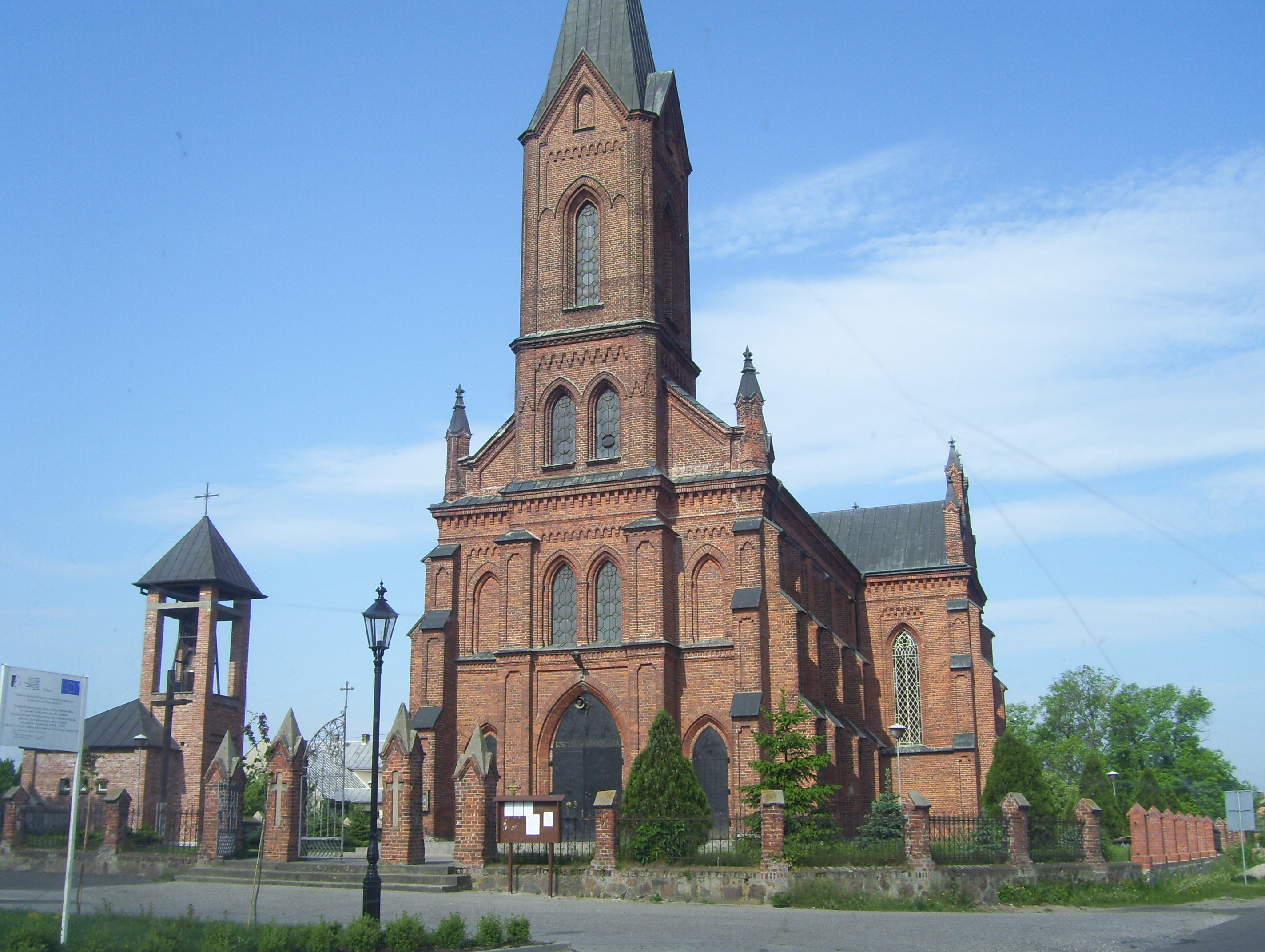 Church in Trąbczyn, Poland